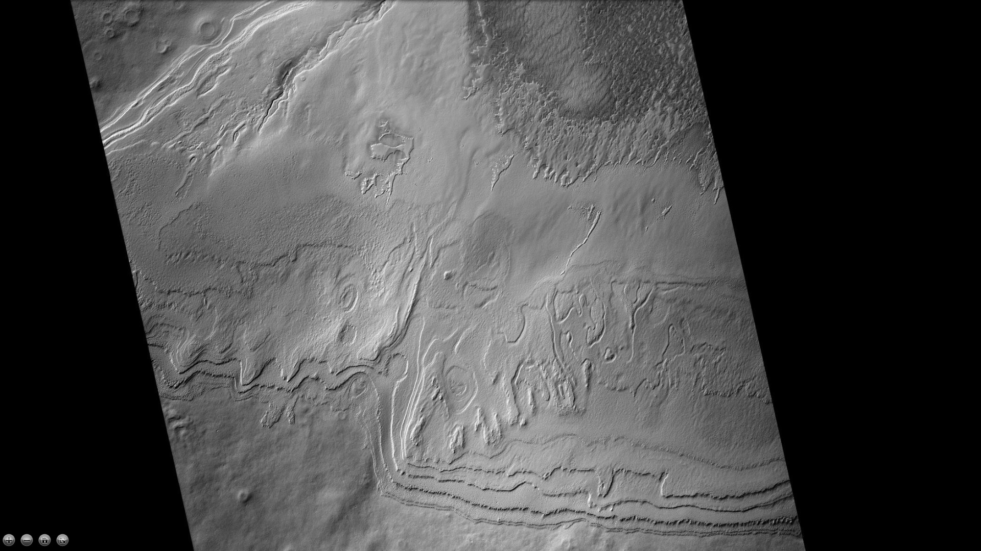 Rayleigh crater showing layers, as seen by ctx